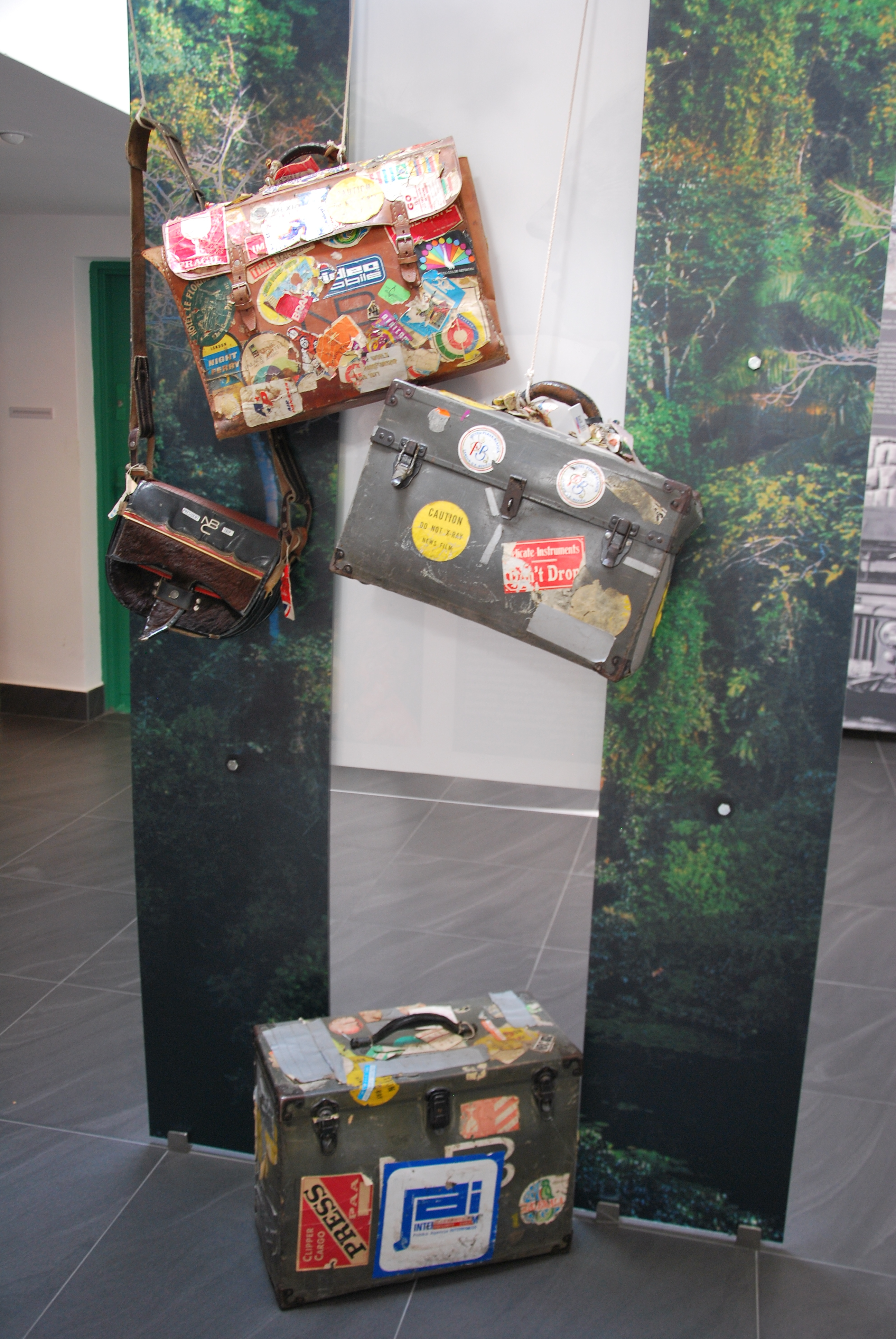 Museum of Travelers in Toruń